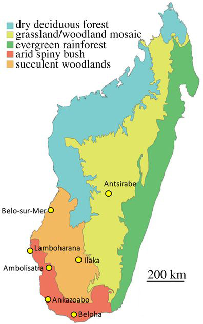 Distribution across Madagascar of identified specimens of Mullerornis modestus.